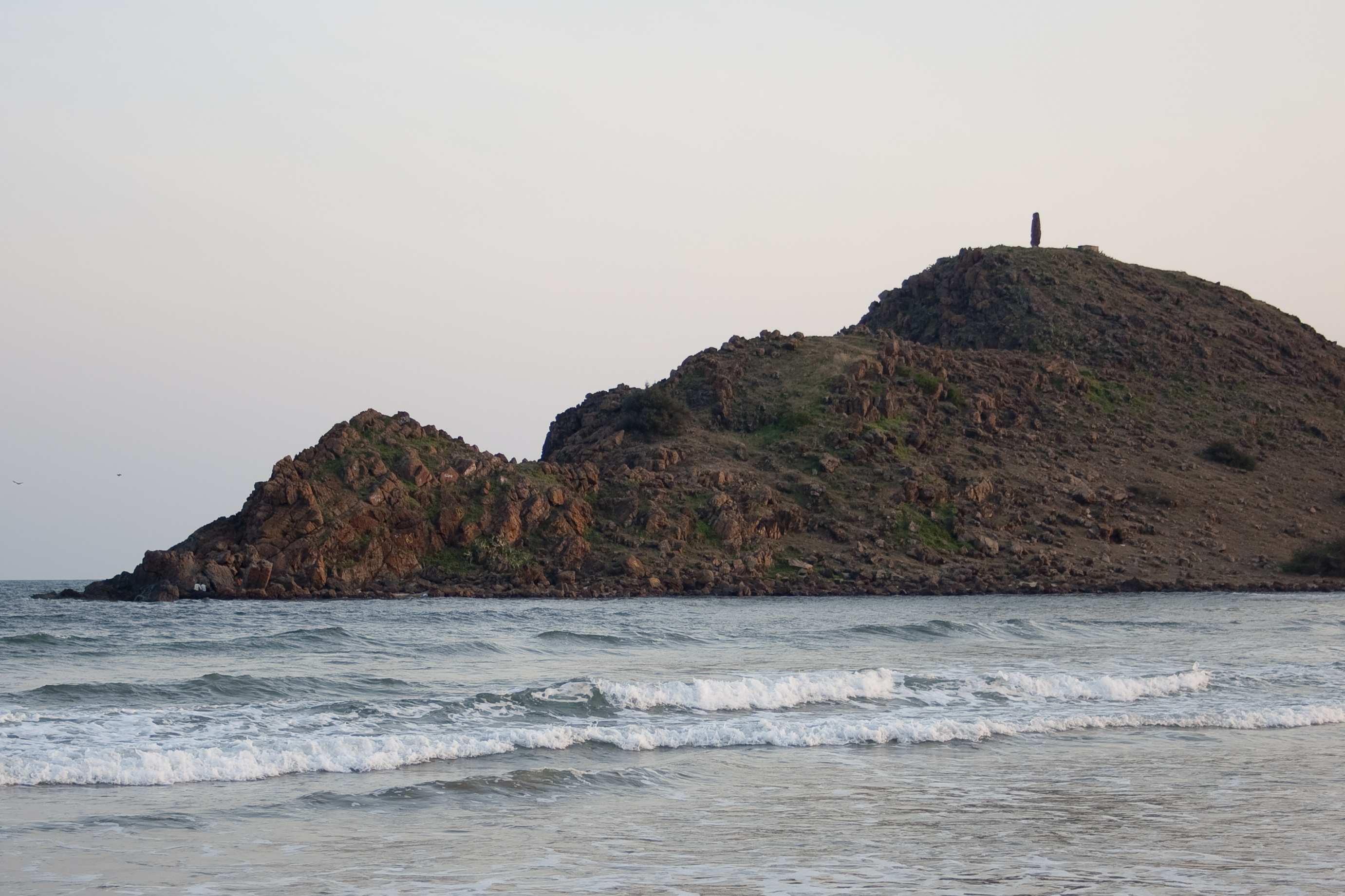 Appikonda hillock view, Appikonda beach